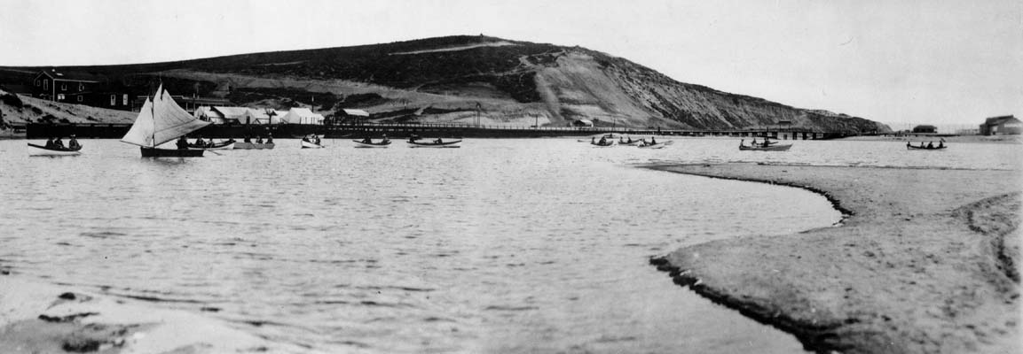 Playa del Rey and the mouth of Ballona Creek. Boats on the estuary, foreground is present day site of Marina del Rey.